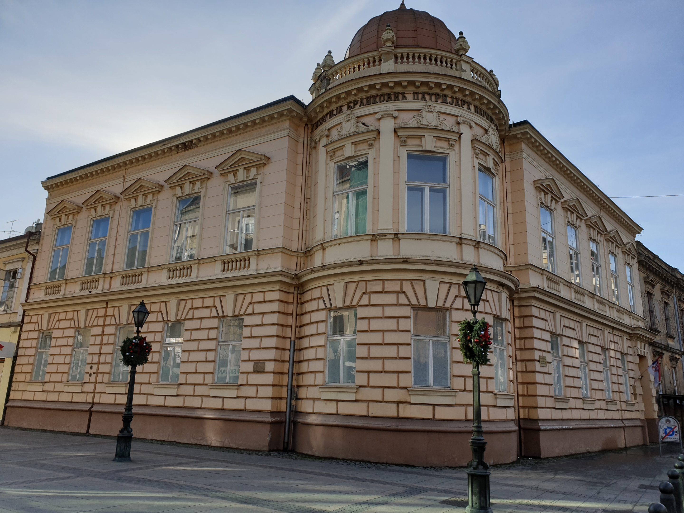 Preparandija